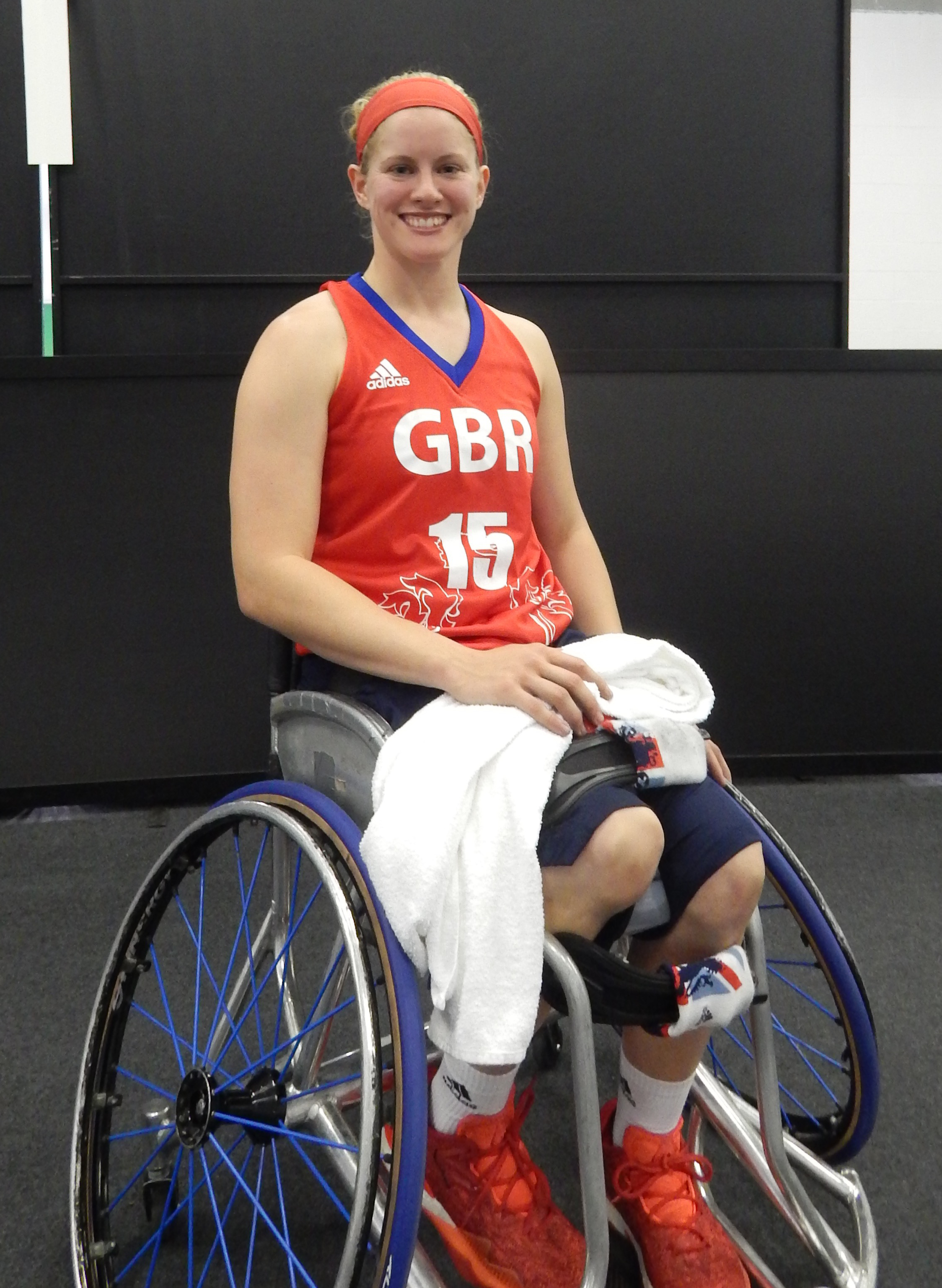 British wheelchair basketball player Robyn Love at the 2016 Paralympic Games in Rio de Janeiro